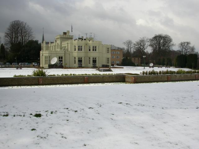 Kingswood Warren. The BBC's engineering research and development centre now occupies this Victorian gothic country house.